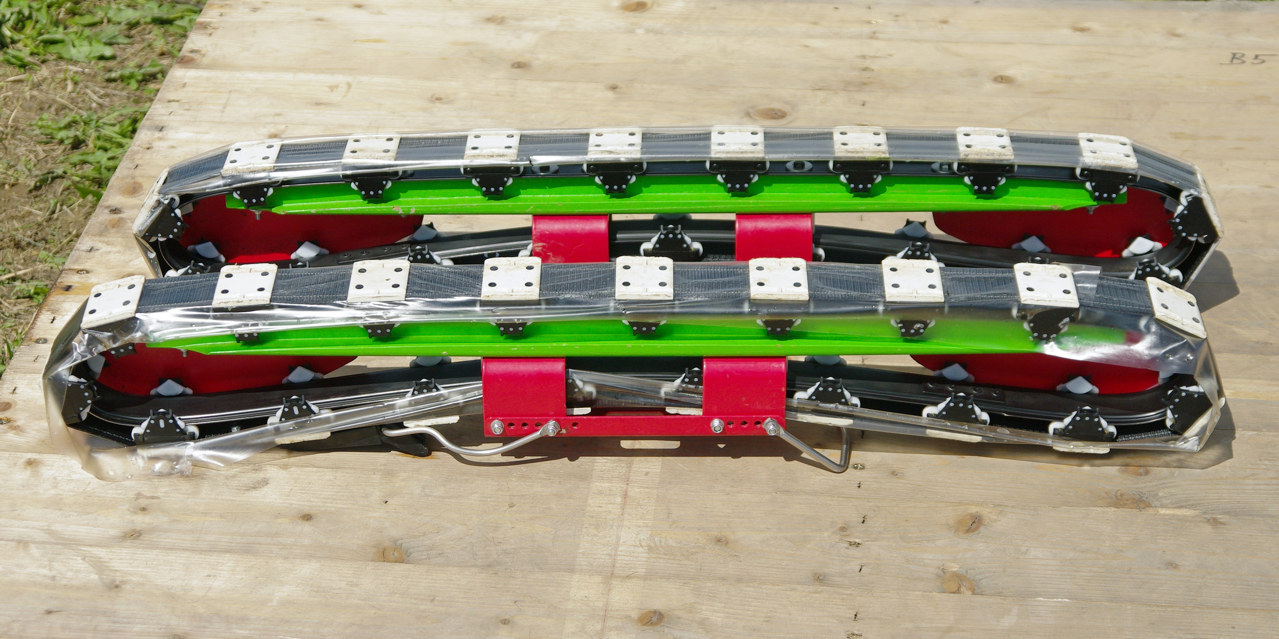 A pair of grass skis.